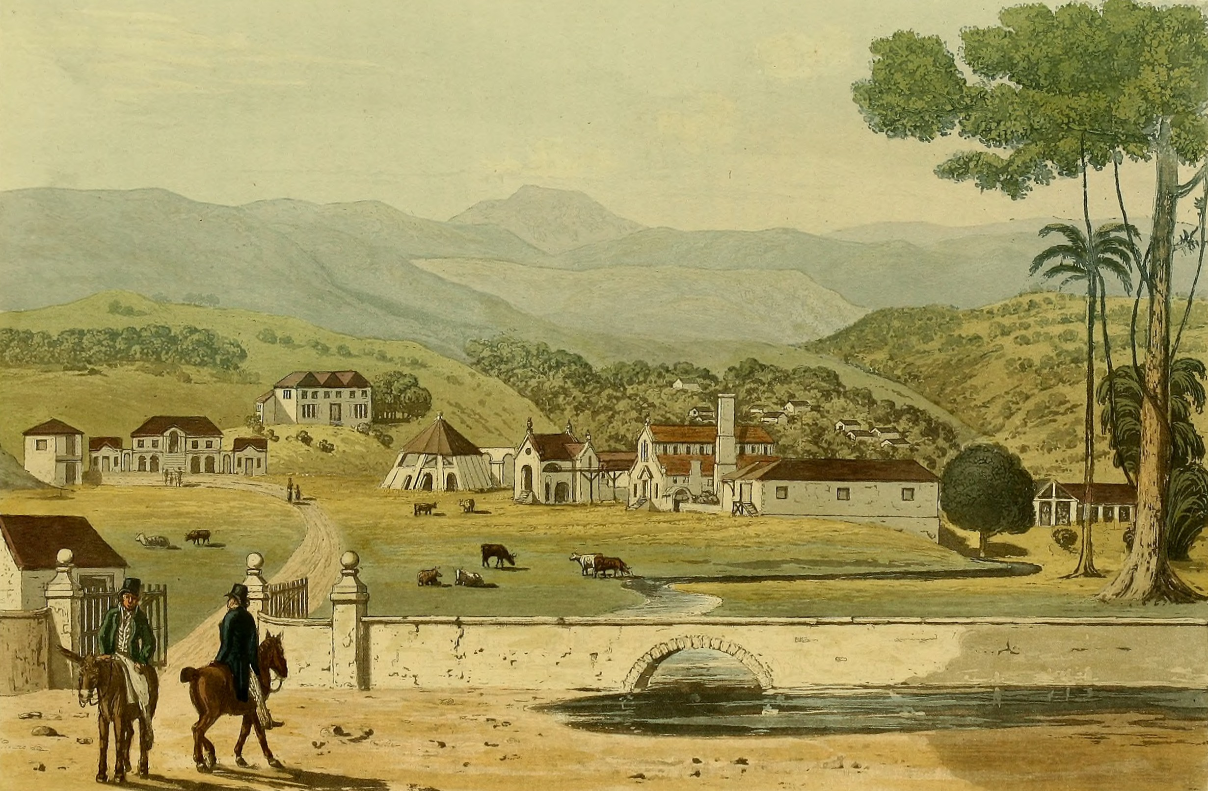 Montpelier Estate, St. James's. — The property of C. R. Ellis, Esq. MP.